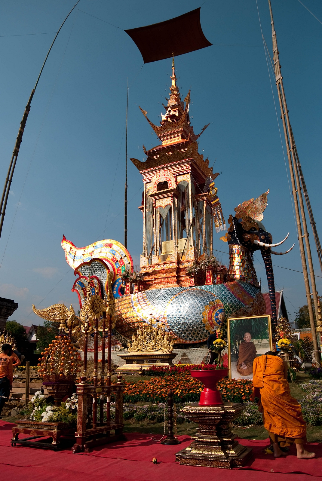 The funeral pyre for Chan Kusalo (the Buddhist "archbishop" of Northern Thailand) two days before the cremation ceremony at Wat Chedi Luang in Chiang Mai. The pyre is in the shape of a nok hatsidiling (a creature which is part elephant, part serpent and part bird from the mythical Himaphan forest). The gold leaf covered coffin has already been placed inside the Burmese inspired mondop-like structure resting on top of the body of the creature.Chan Kusalo, November 26, 1917 - July 11, 2008